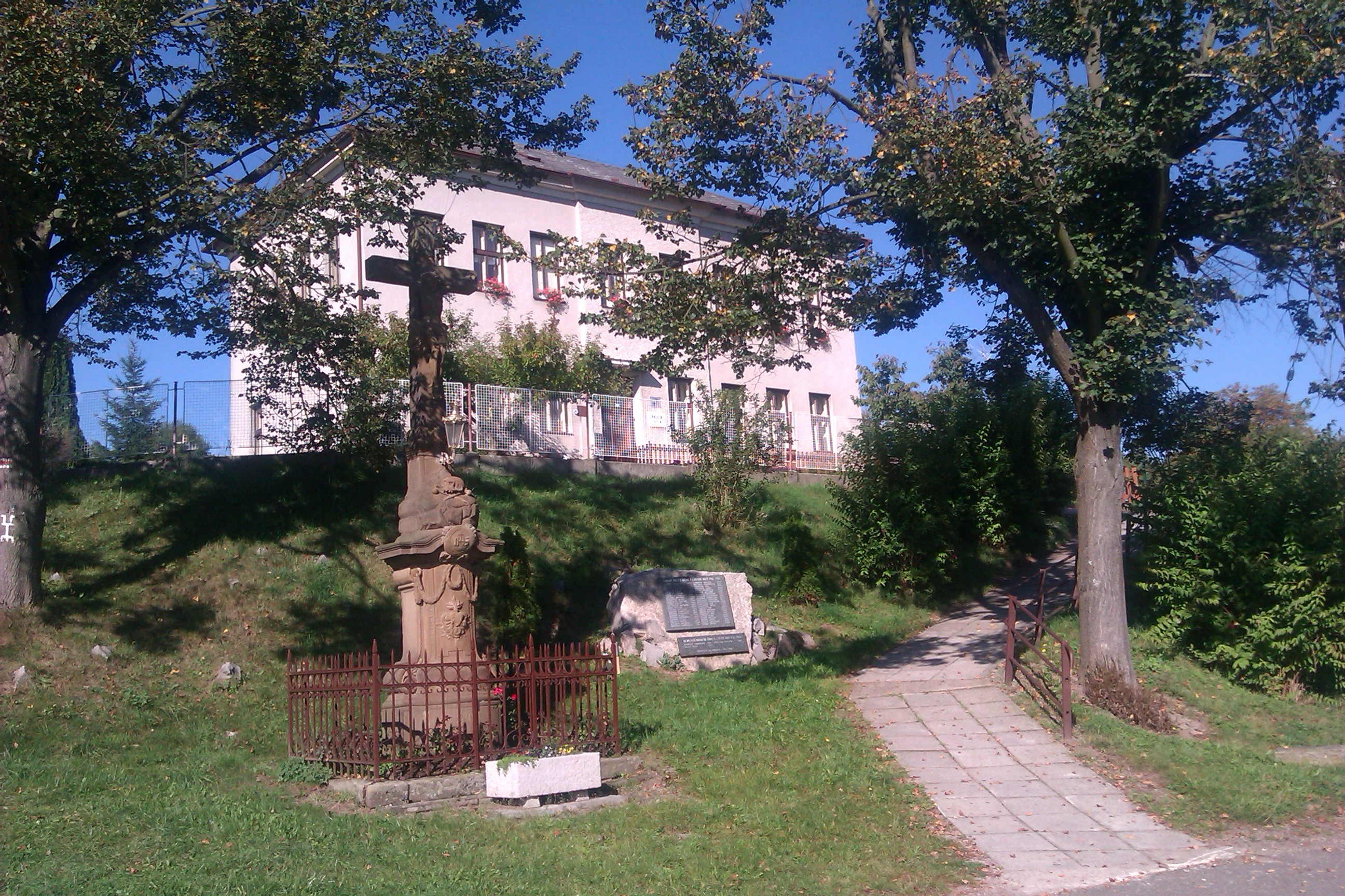 Primary school in Česká Rybná u Žamberka